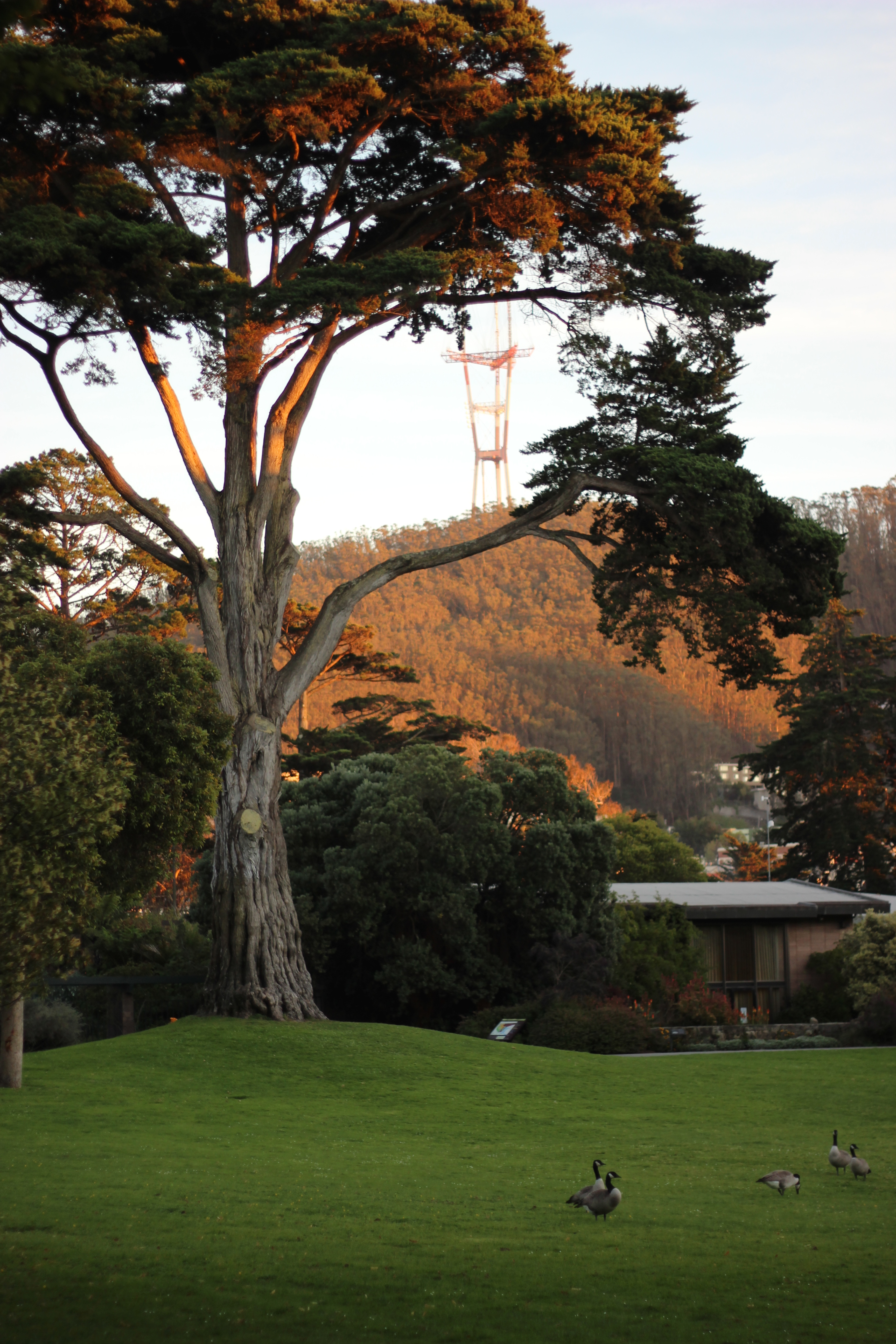 Scenic photo of SF Botanical Garden